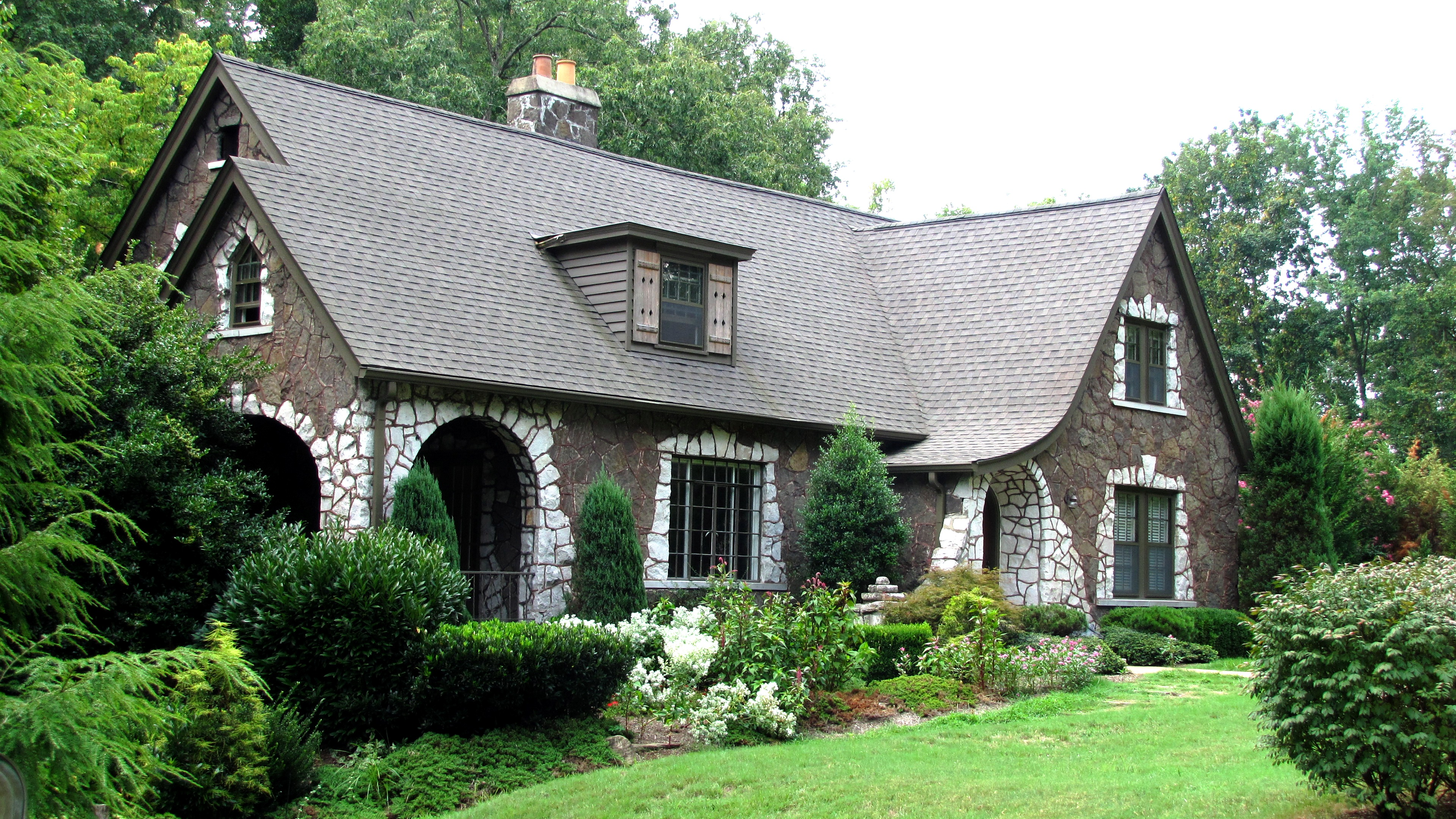 House at 214 Druid Drive in the Lindbergh Forest neighborhood of Knoxville, Tennessee, USA. Built circa 1930, this house is now a contributing property within the NRHP-listed Lindbergh Forest Historic District. The window and arch trim consist of East Tennessee marble.